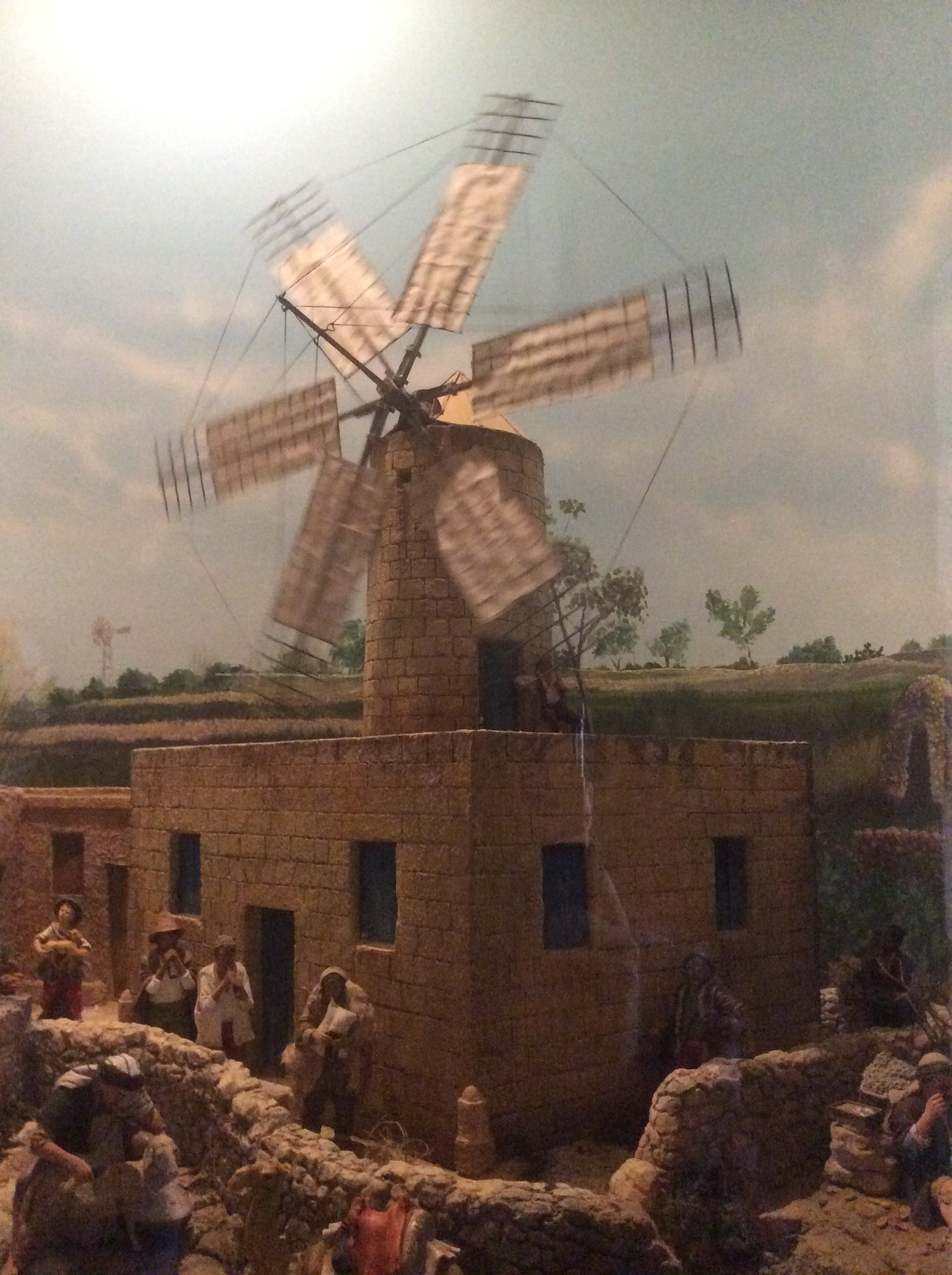 Small traditional Maltese windmill model at Monte Kristo Museum, Hal Farrug Luqa